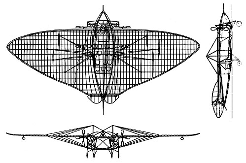 Plan, front and side view of the 1876 amphibian aeroplane project by Frenchmen Alphonse Pénaud and Paul Gauchot.